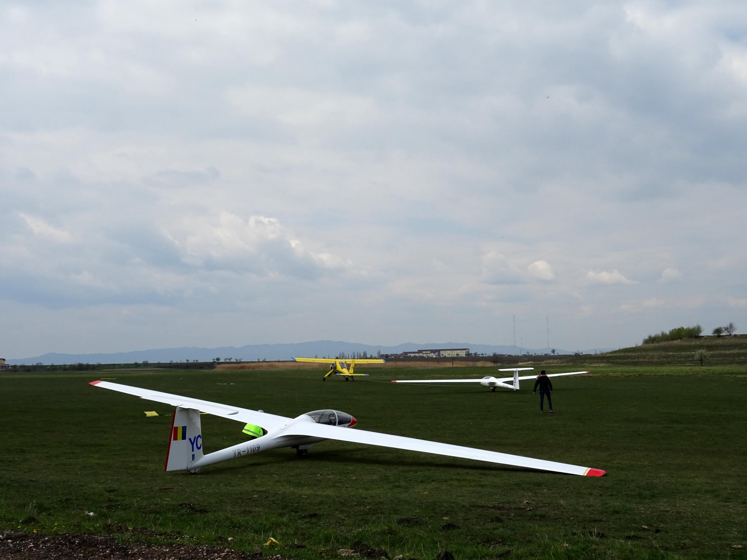 Sânpetru airport, Brașov, Romania